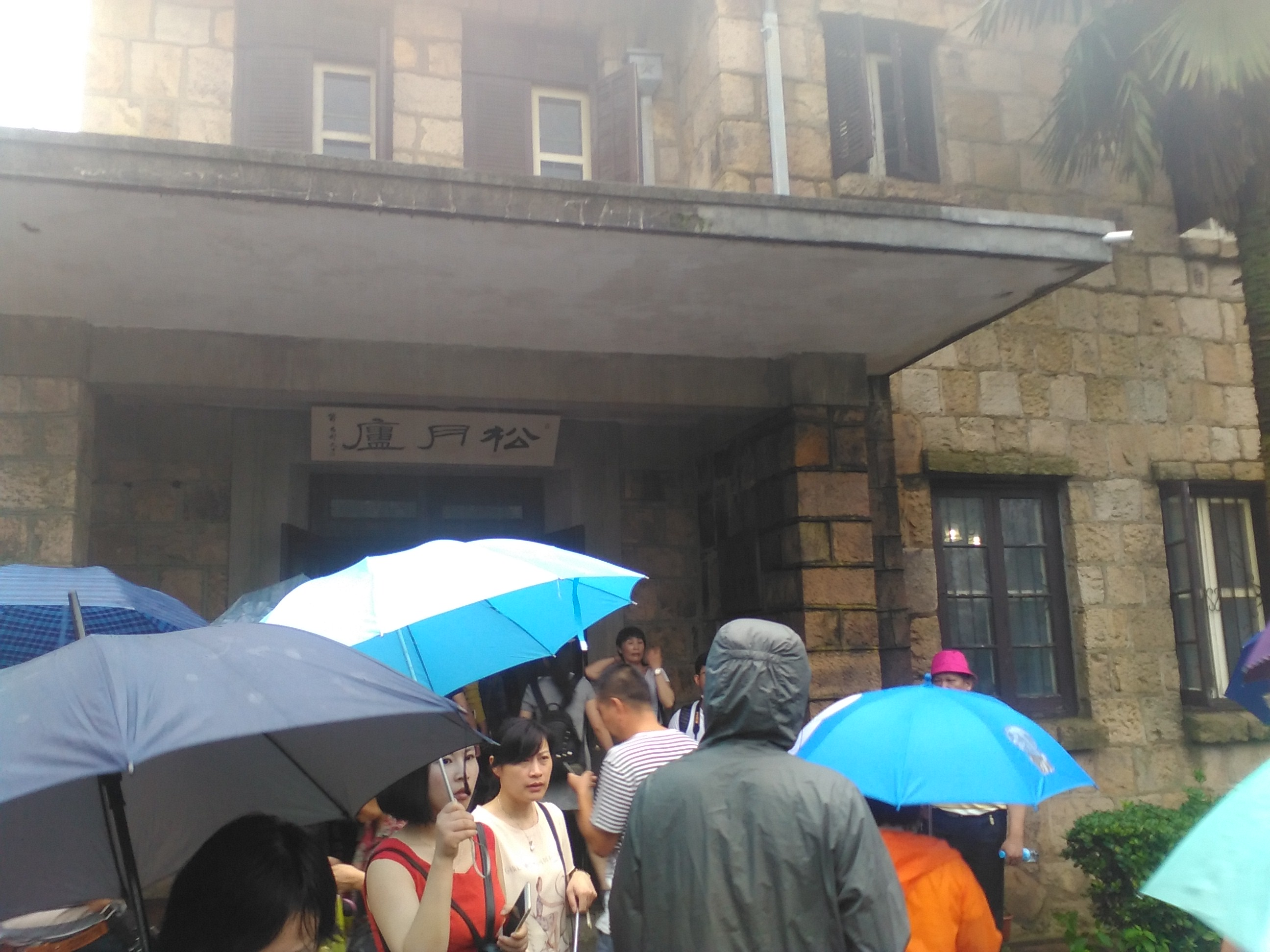 Song Yue Lu, the official residence of Chiang Kai-shek on Mount Mogan